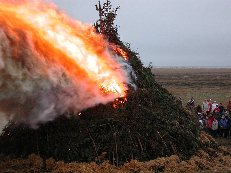 Sankt Peter-Ording, Fire at Easter, Germany